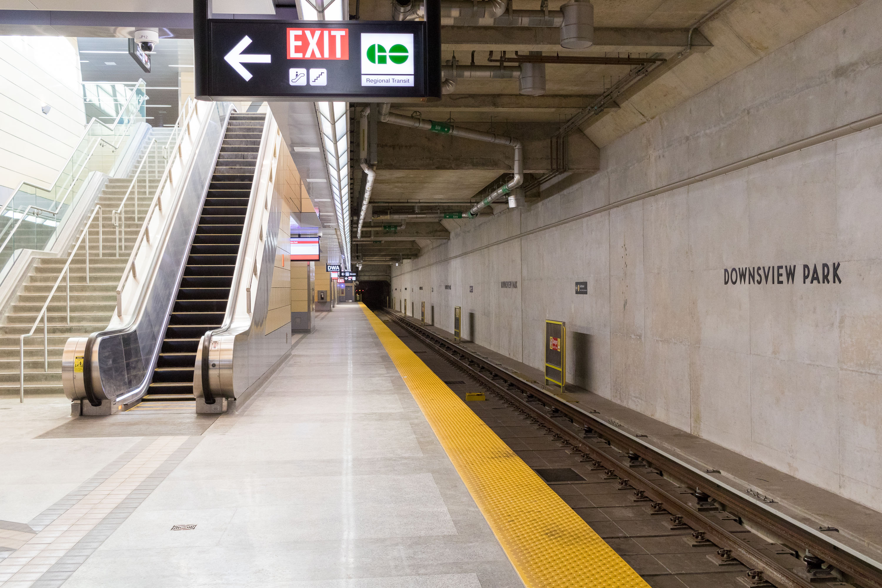 Downsview Park Platform